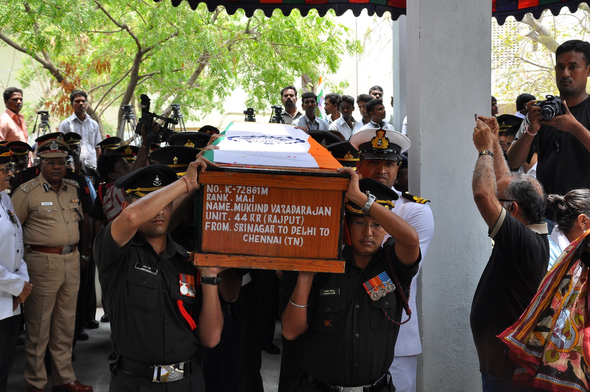 Major mukund ceremony